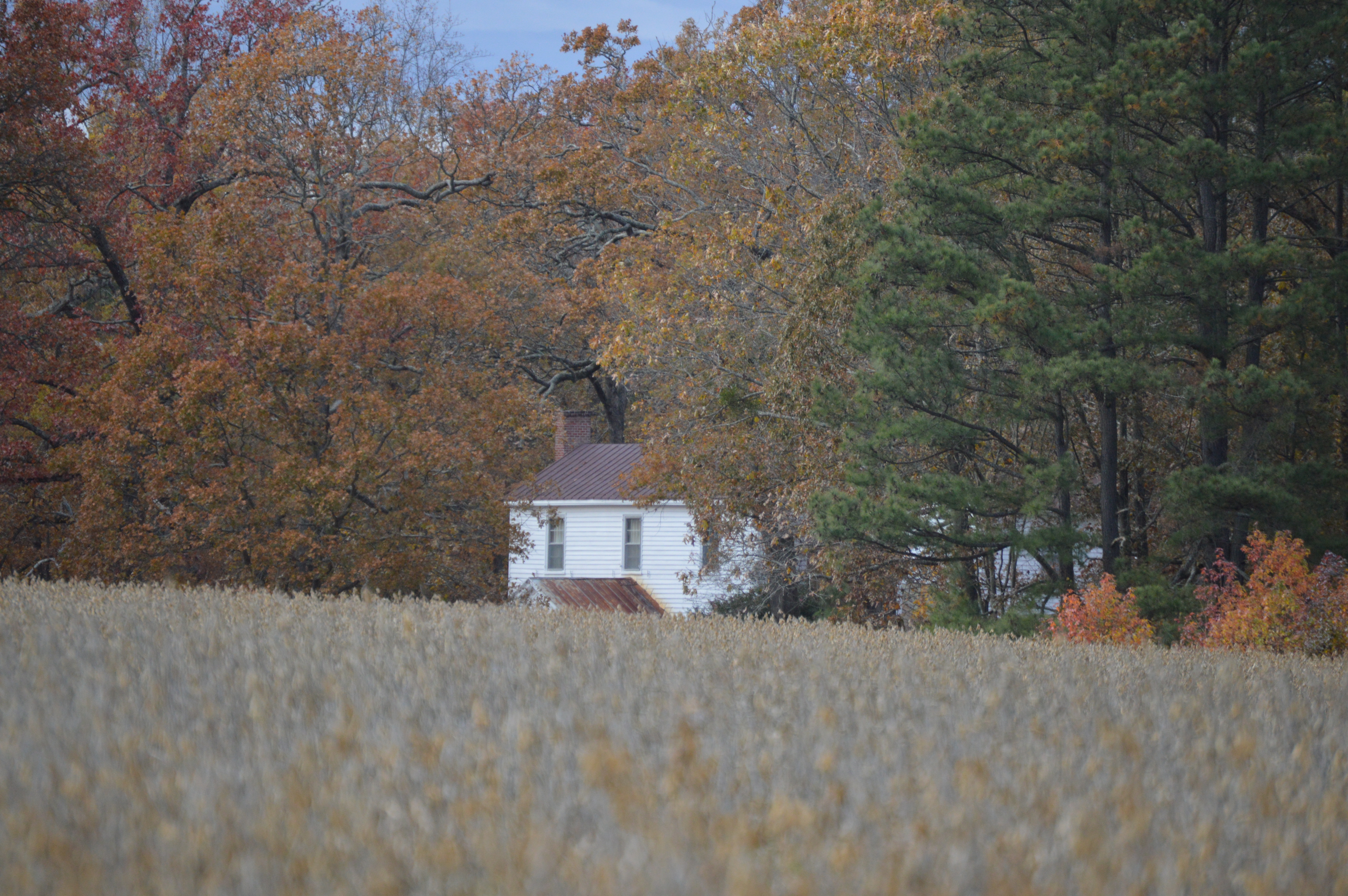 Roadside view of the Jones Farmhouse, located on Afton Grove Road south of Kenbridge in Lunenburg County, Virginia, United States. Built in 1846, it is listed on the National Register of Historic Places.